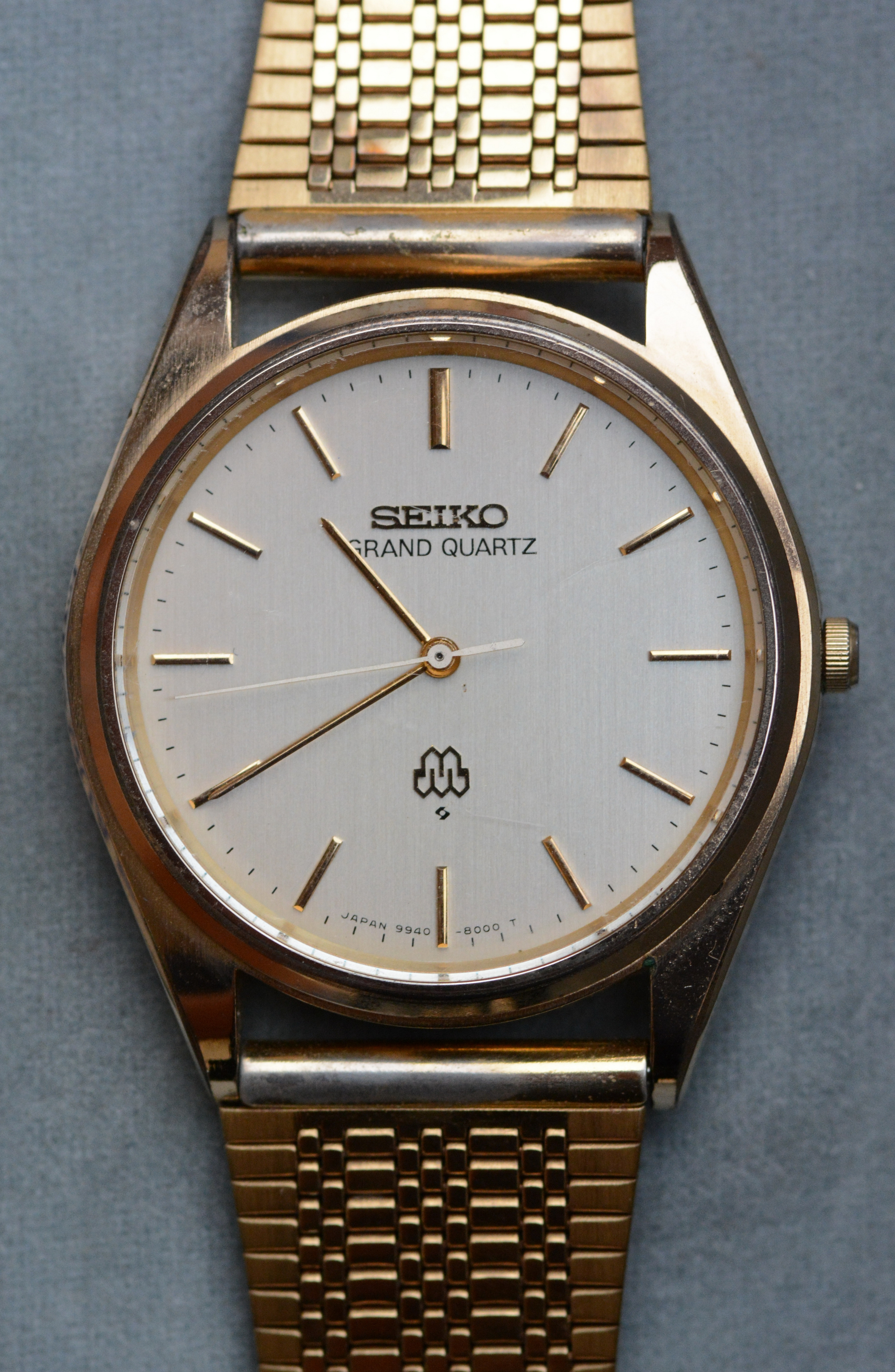 Seiko Grand Quartz 9940-8010 (Twinquartz), 1979